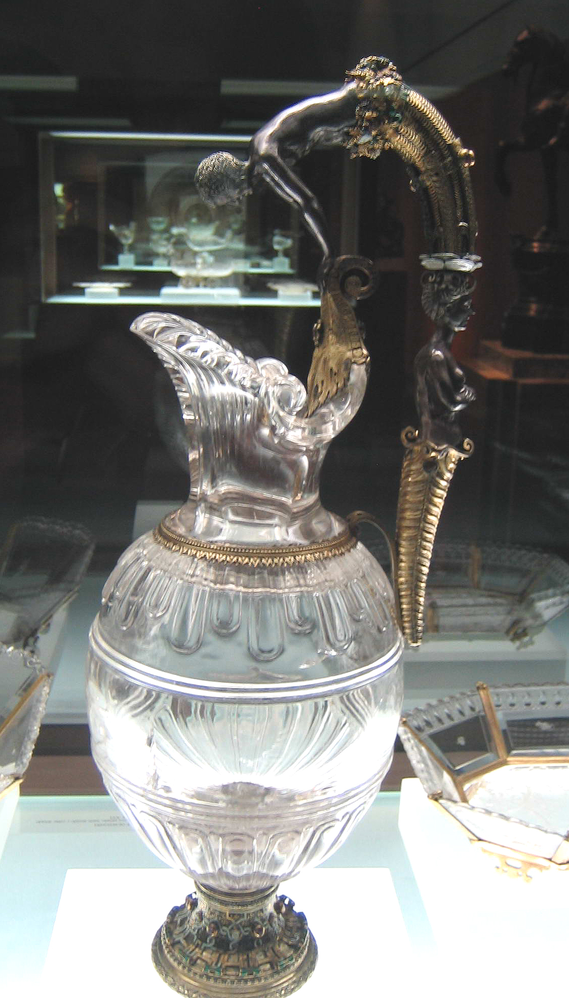 A jug with Narcissus and a mermaid on the handle. It's part of the Dauphin’s Treasure.